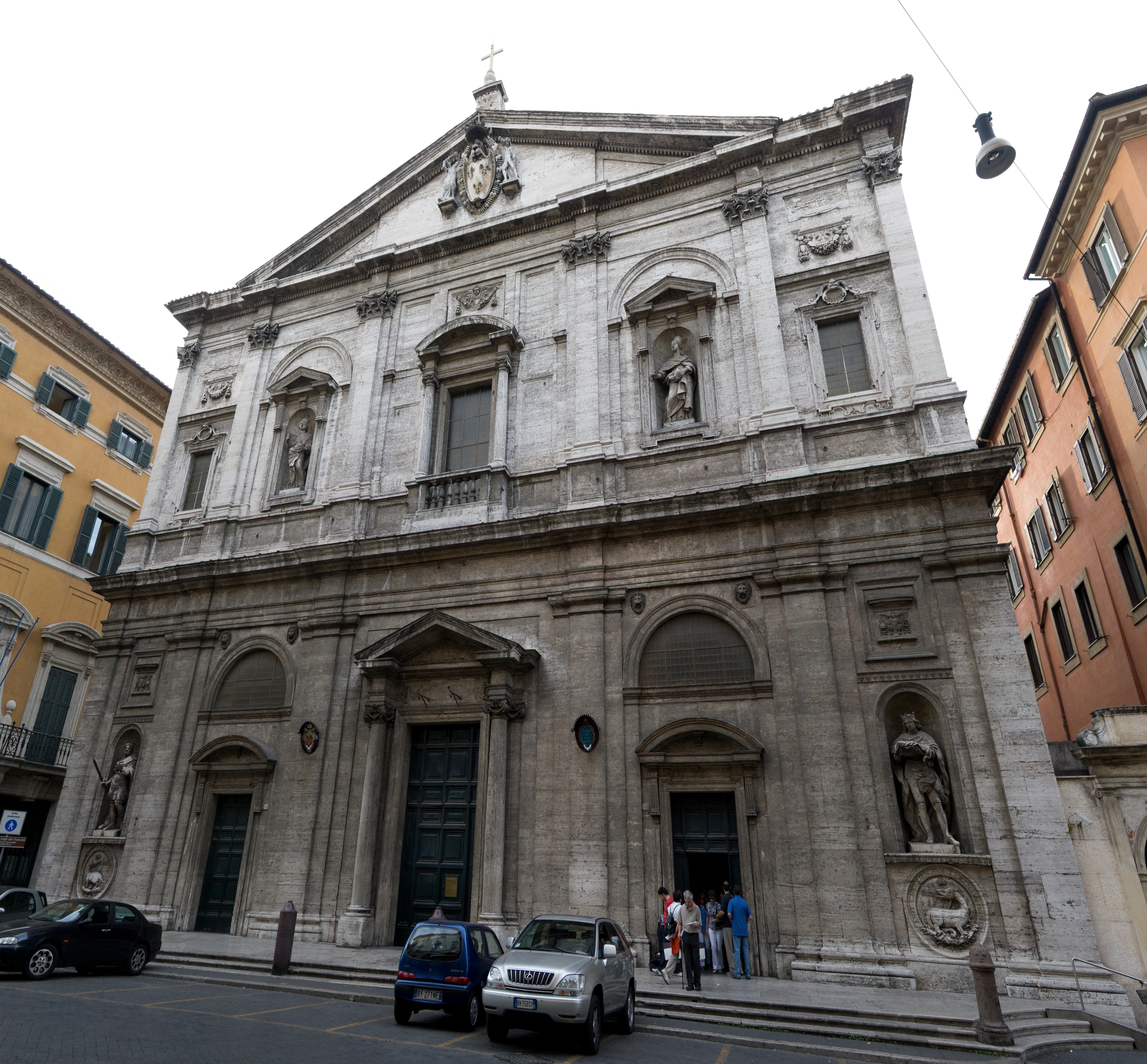 San Luigi dei Francesi is a church of Rome.